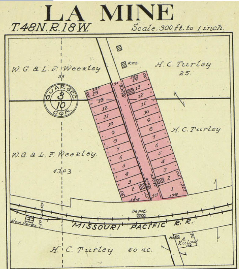 1915 map of Lamine, Cooper County, Missouri from the 1915 Standard Atlas of Cooper County, Missouri